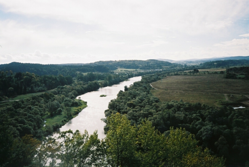 San River in Poland